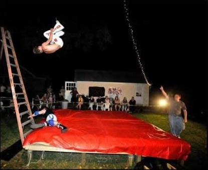 YEAH!!!!!!!!!!!!!!!!!